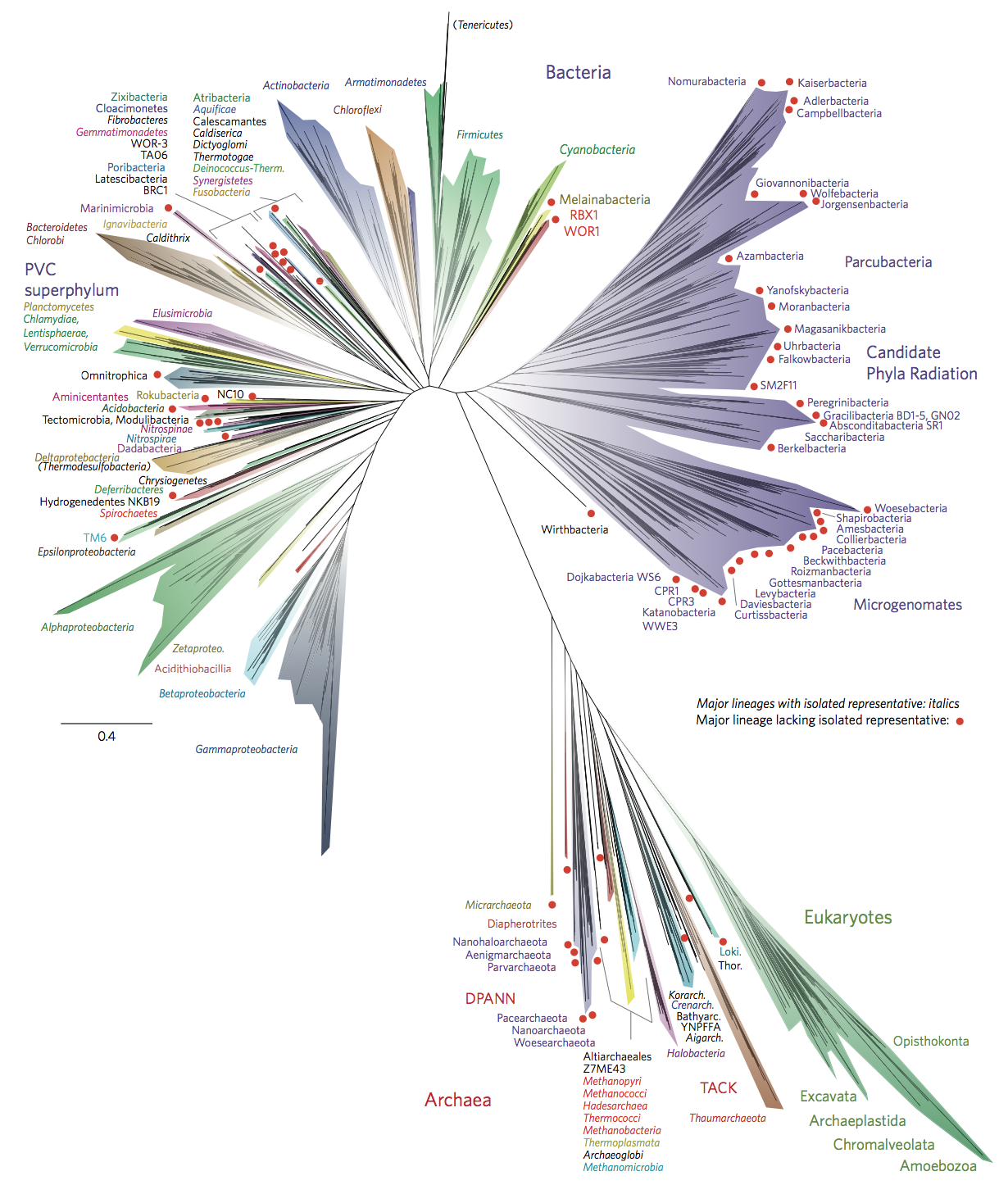 92 bacterial phyla, 26 archaael phyla, and all eukaryotic phyla are given in this tree of life built from 16 ribosomal proteins. The diagram is color coded. Details: The tree includes 92 named bacterial phyla, 26 archaeal phyla and all five of the Eukaryotic supergroups. Major lineages are assigned arbitrary colours and named, with well-characterized lineage names, in italics. Lineages lacking an isolated representative are highlighted with non-italicized names and red dots. For details on taxon sampling and tree inference, see Methods. The names Tenericutes and Thermodesulfobacteria are bracketed to indicate that these lineages branch within the Firmicutes and the Deltaproteobacteria, respectively. Eukaryotic supergroups are noted, but not otherwise delineated due to the low resolution of these lineages. The CPR phyla are assigned a single colour as they are composed entirely of organisms without isolated representatives, and are still in the process of definition at lower taxonomic levels.